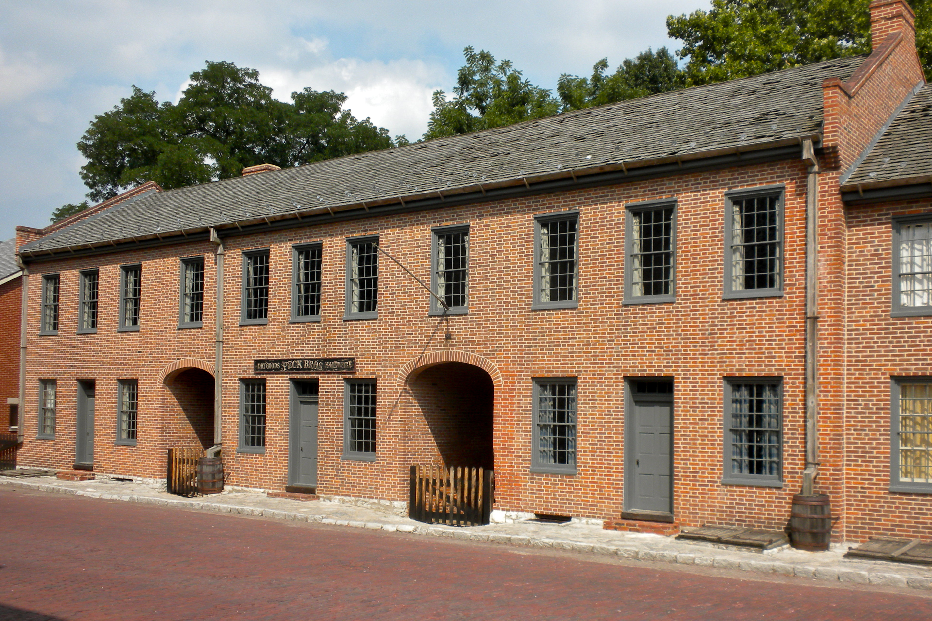 First Missouri State Capitol Buildings on NRHP since April 16, 1969. At 208-216 S. Main St., St. Charles, Missouri. 1st territorial (?) capital, about 1830. A block from the Missouri River or less.